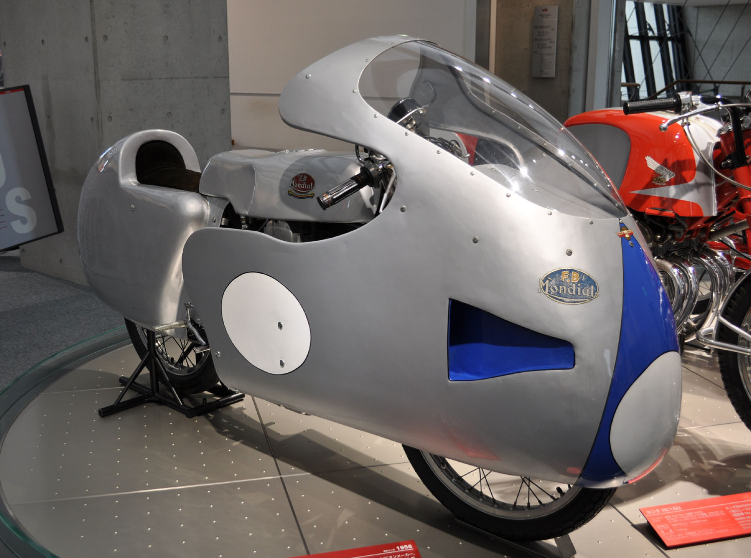 Mondial 125GP (1956)